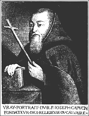 Pere Joseph, gray eminence of Cardinal de Richelieu